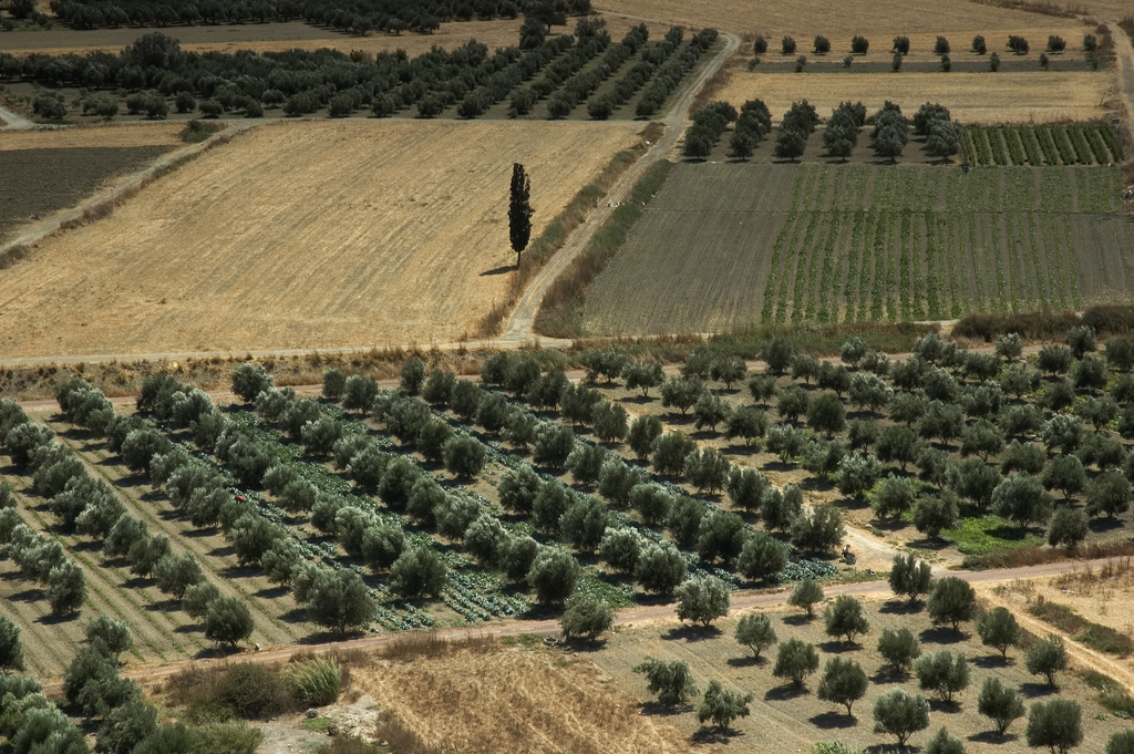 Festos - Valley of Messara